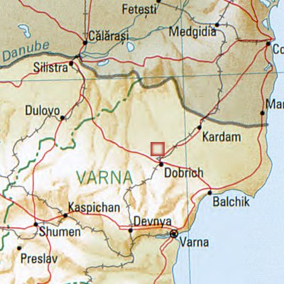 Bulgaria 1994 CIA map, city: part of the map Bulgaria_1994_CIA_map.jpg This image is in the public domain because it contains materials that originally came from the United States Central Intelligence Agency's World Factbook.